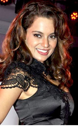 Kangna unveils the new LG 3D TV